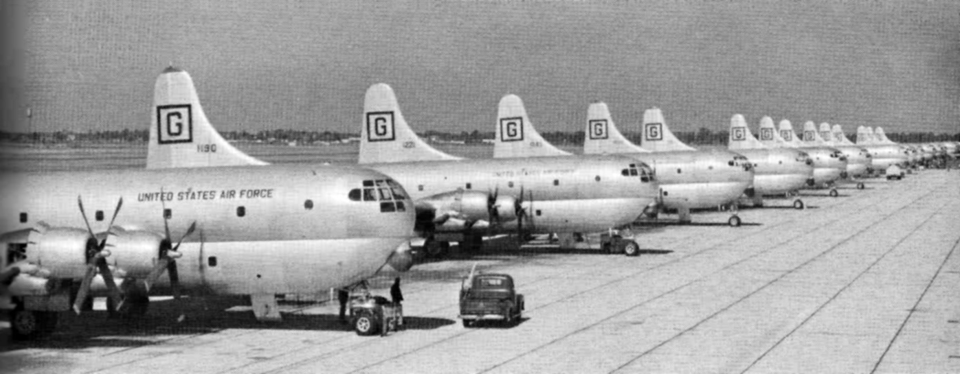 Brand new U.S. Air Force Boeing KC-97E Stratofreighter tanker aircraft of the 306th Air Refueling Squadron, 306th Bomb Wing, at MacDill Air Force Base, Florida (USA), in July 1951.